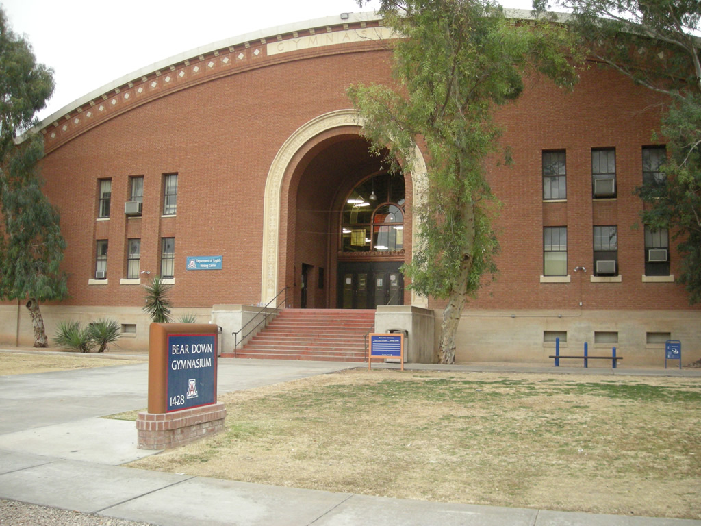 Bear Down Gymnasium, University of Arizona